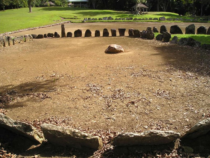 Caguana Cerimonial Park between Utuado and Lares (Puerto Rico).